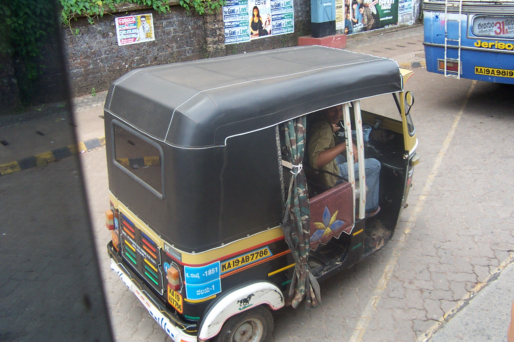 I love these machines which are ubiquitous in India, I just wish I coould have rtried one, but I'm told they are not very comfortable.Mangalore Rickshaw